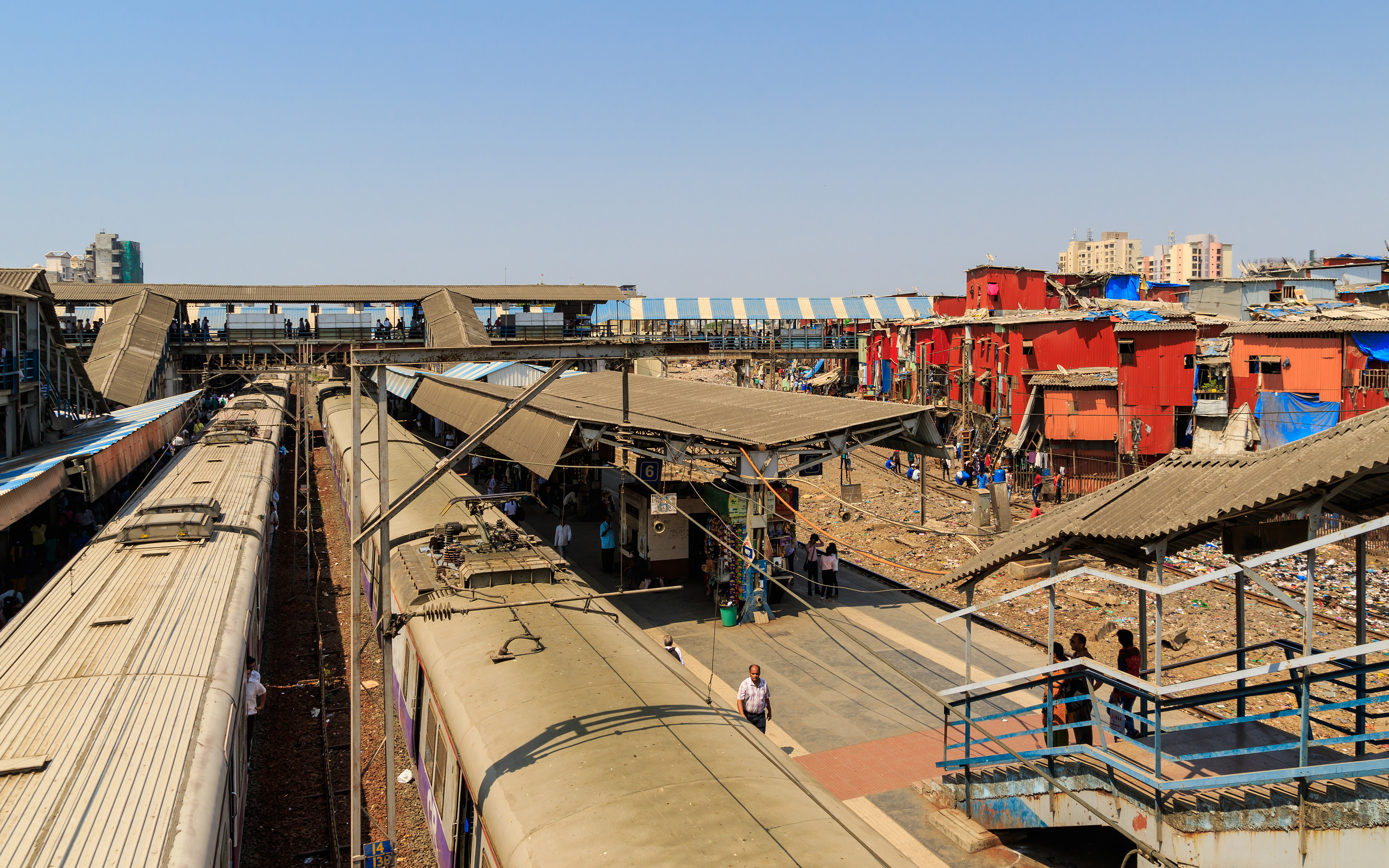 Bandra railway station in Mumbai, India